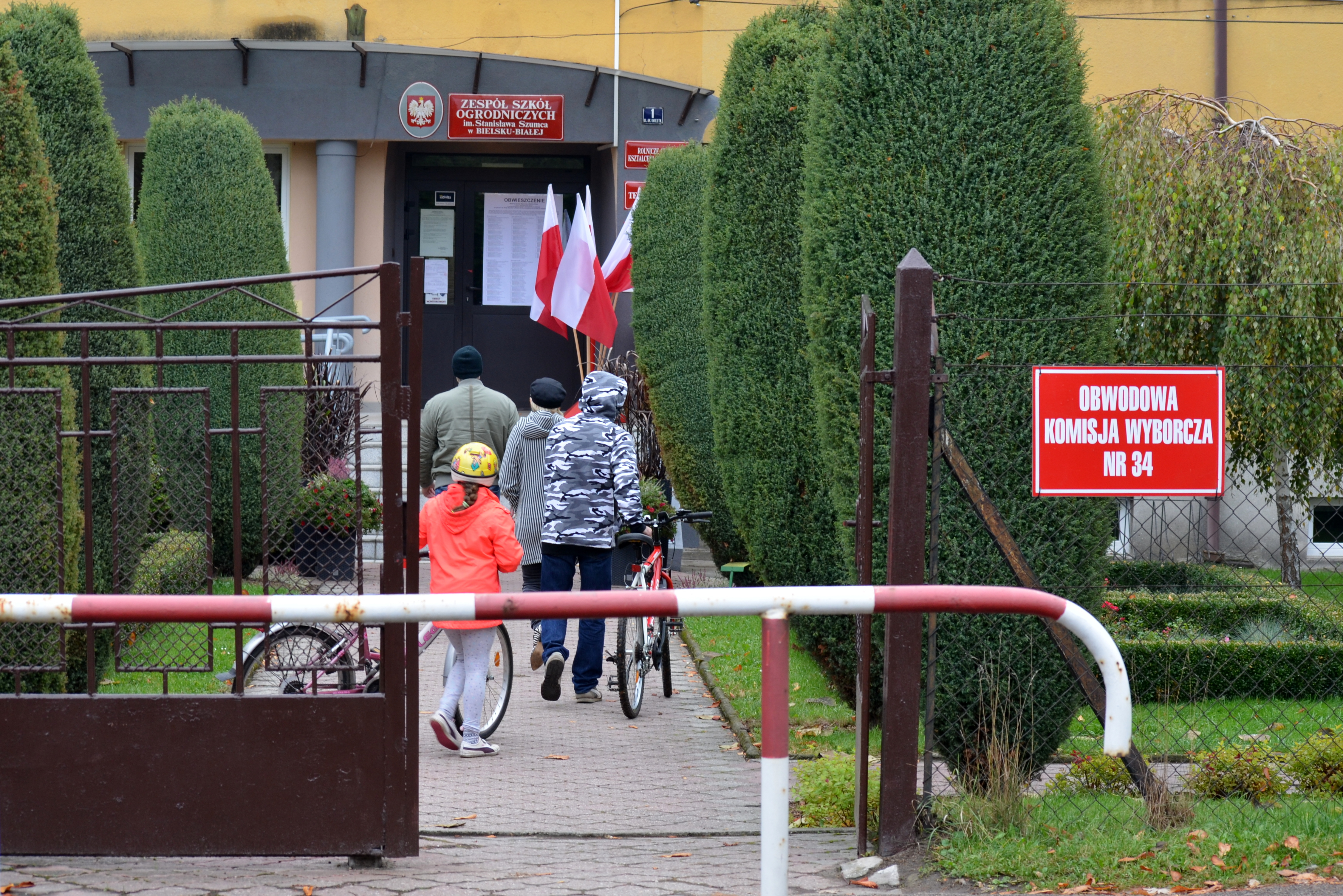 Polish local elections, 2018